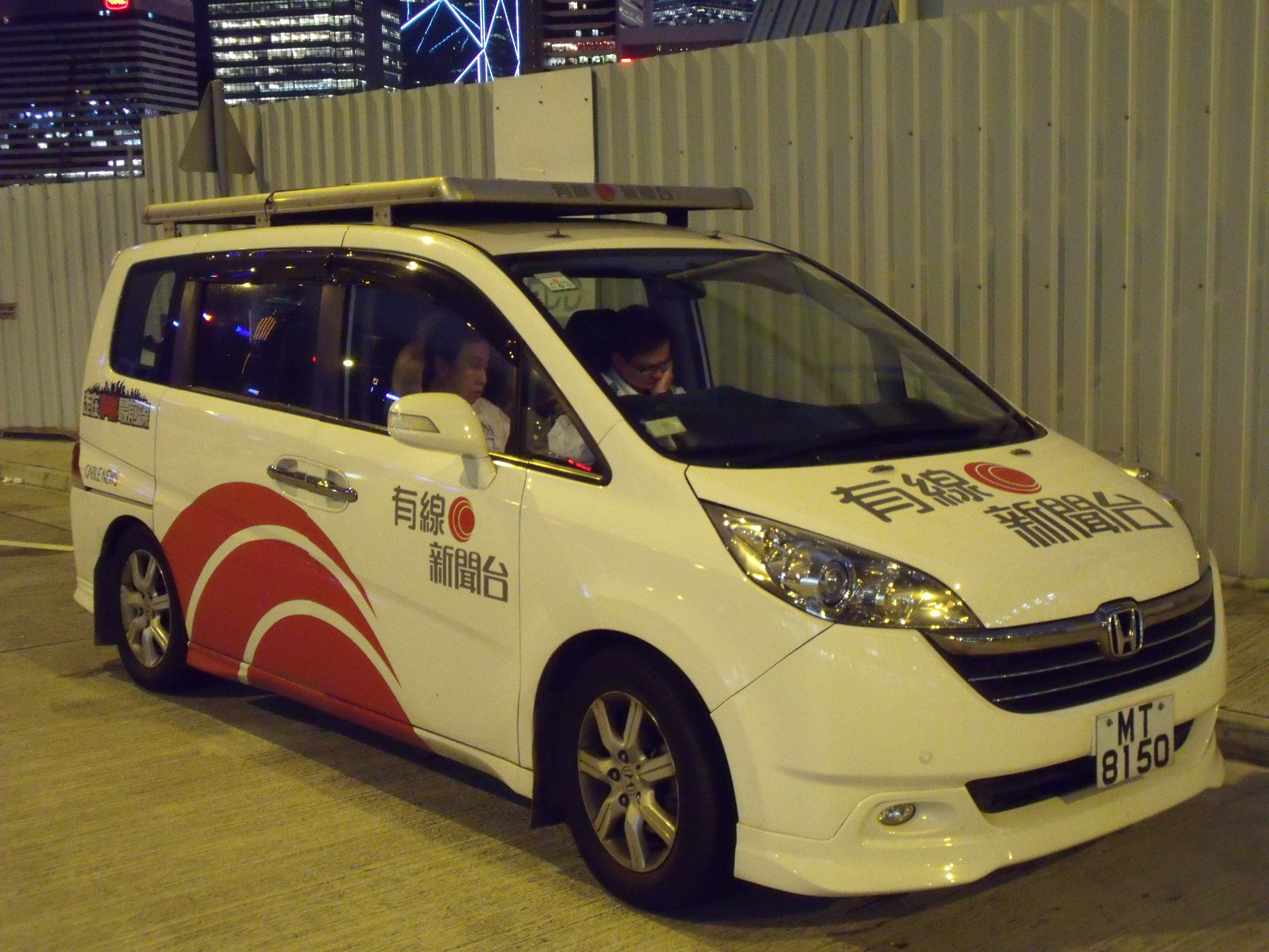 Cable TV news car parked in Hong Kong Island, Hong Kong.